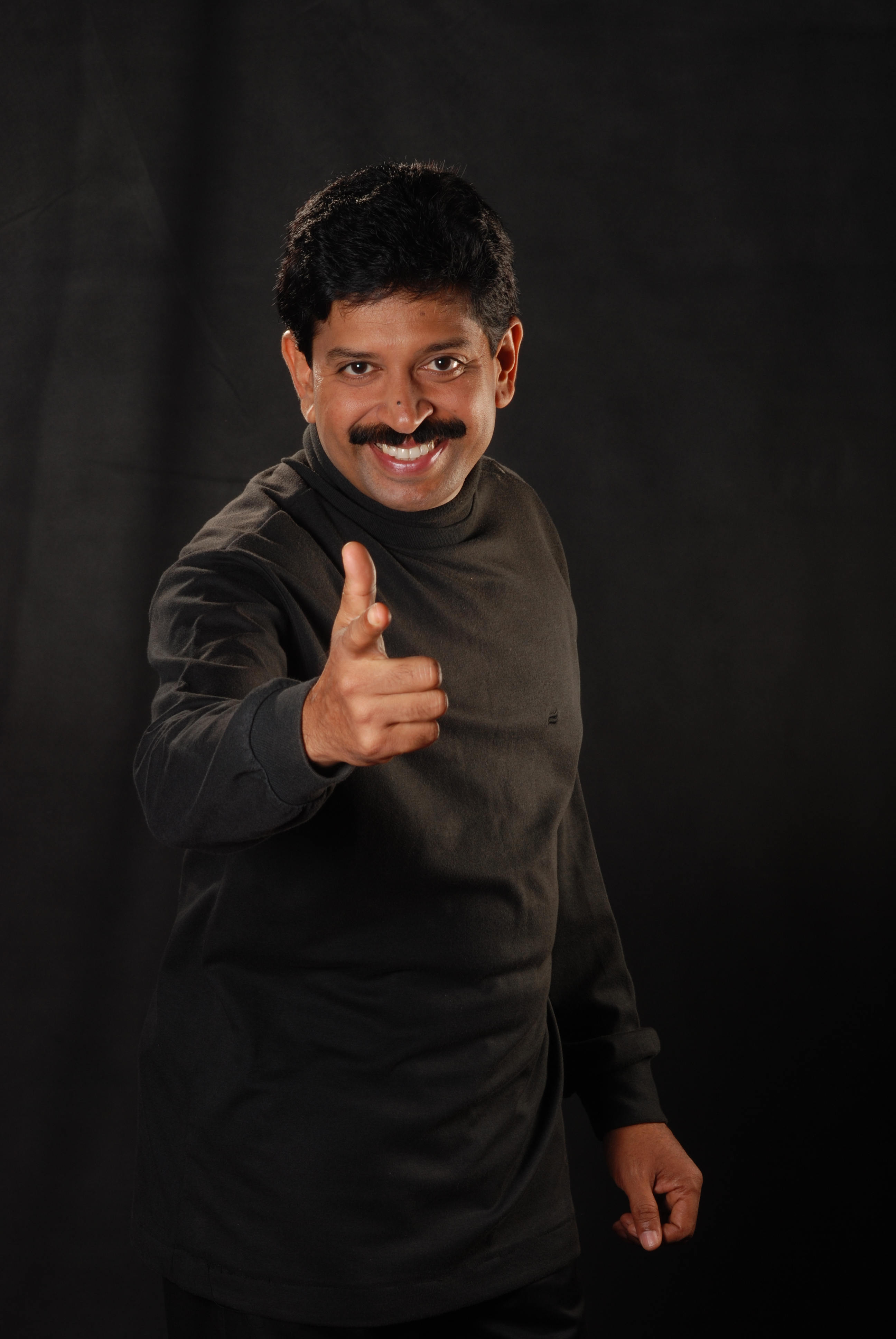 Gopinath Muthukad is a well known Indian magician.